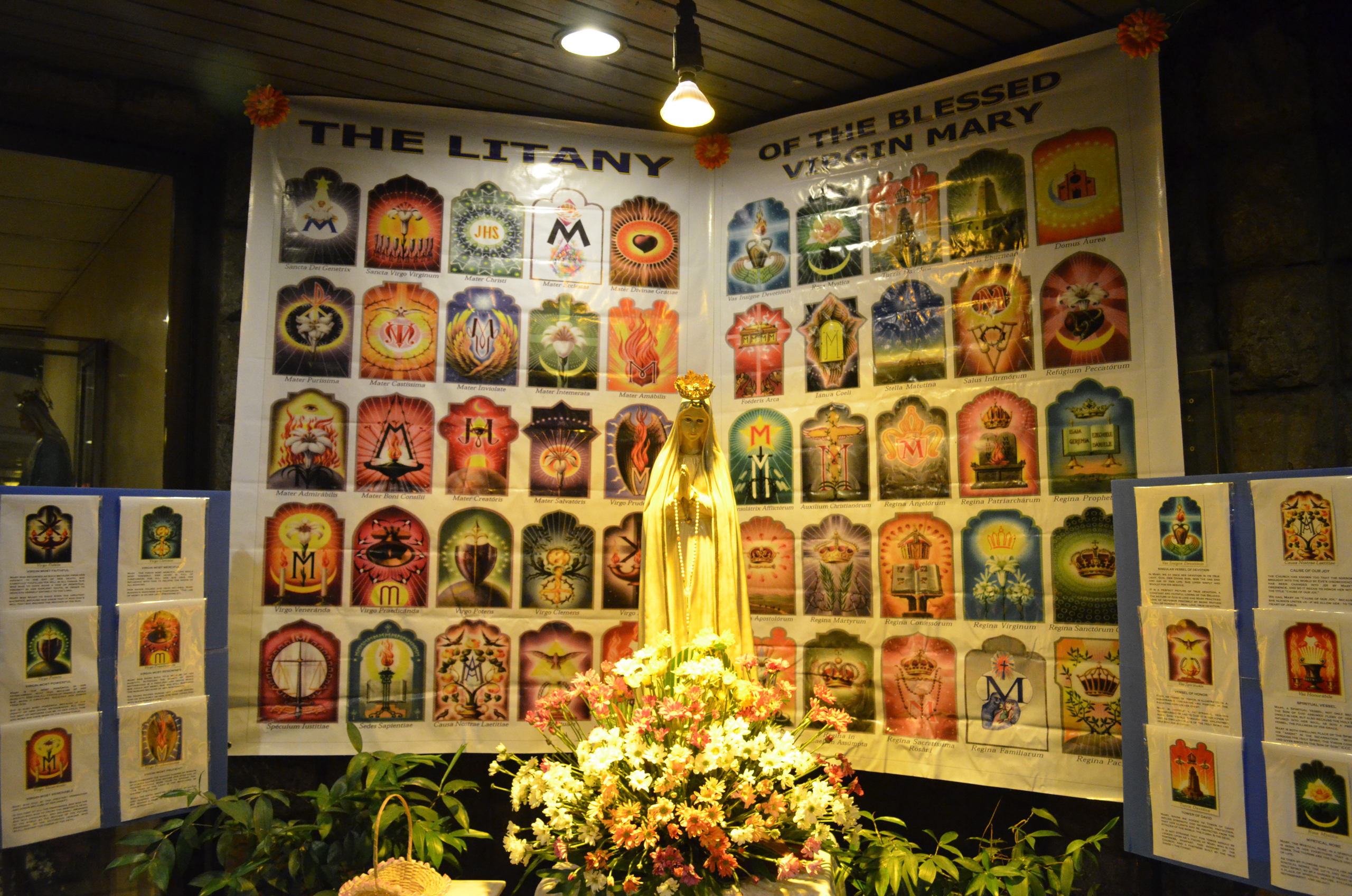 The Litany of the Blessed Virgin Mary, taken at EDSA Shrine, Manila, Philippines.